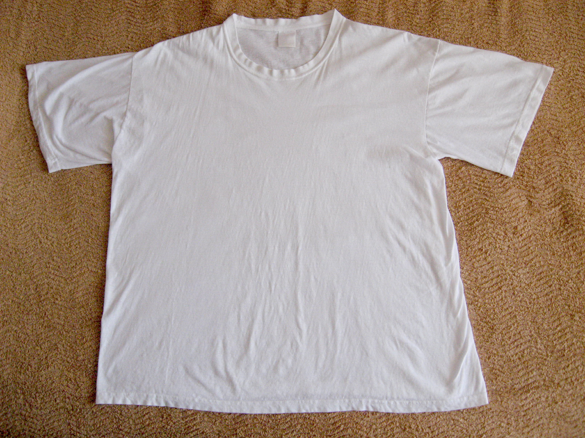 A classical T-shirt